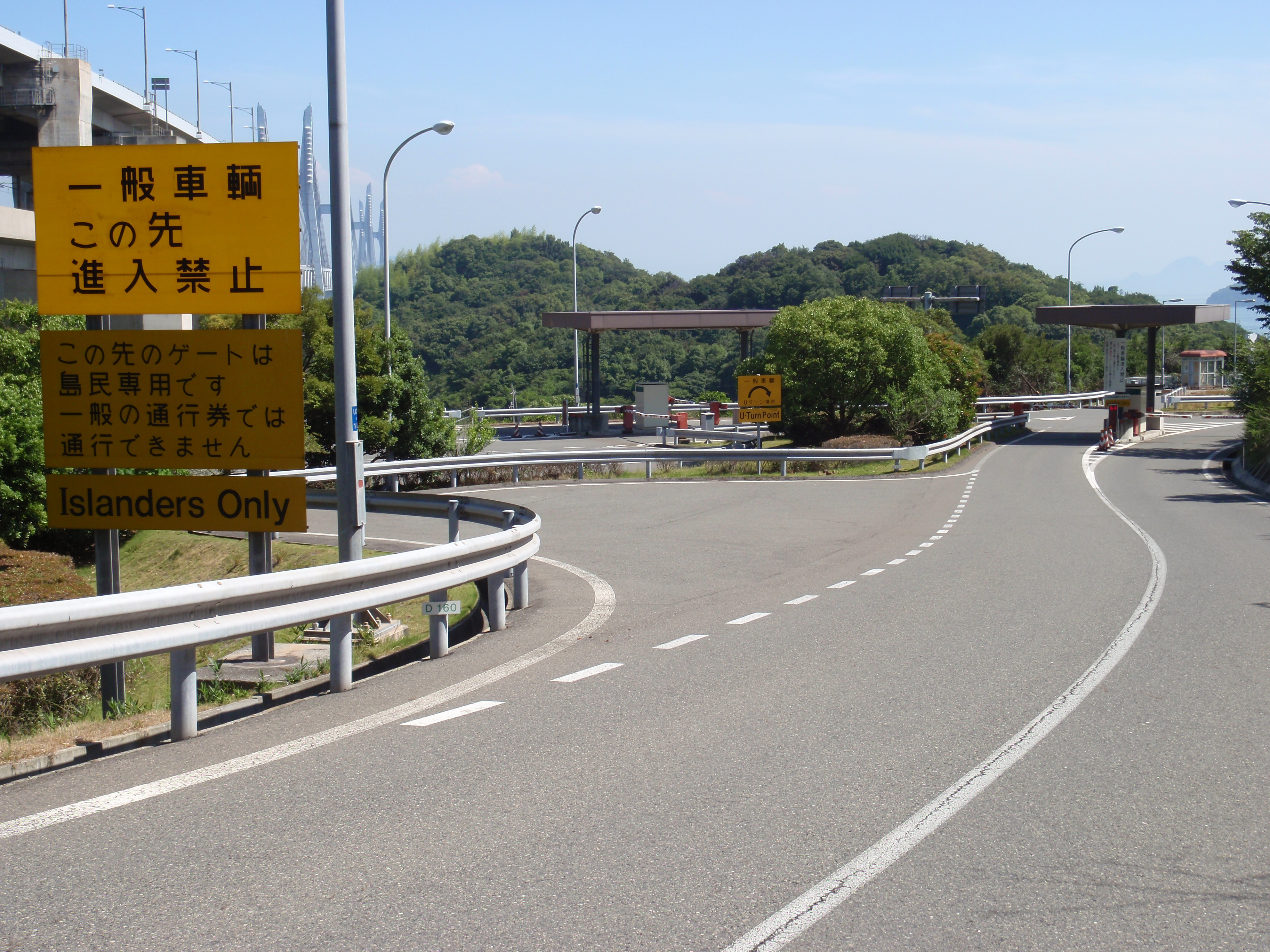 Hitsuishijima Interchange